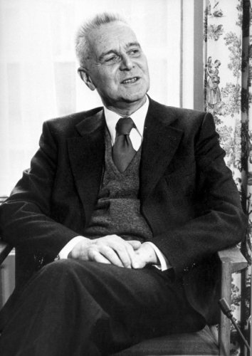 Jan Tinbergen at home, filmed by the Dutch TV program "Ten Huize Van".